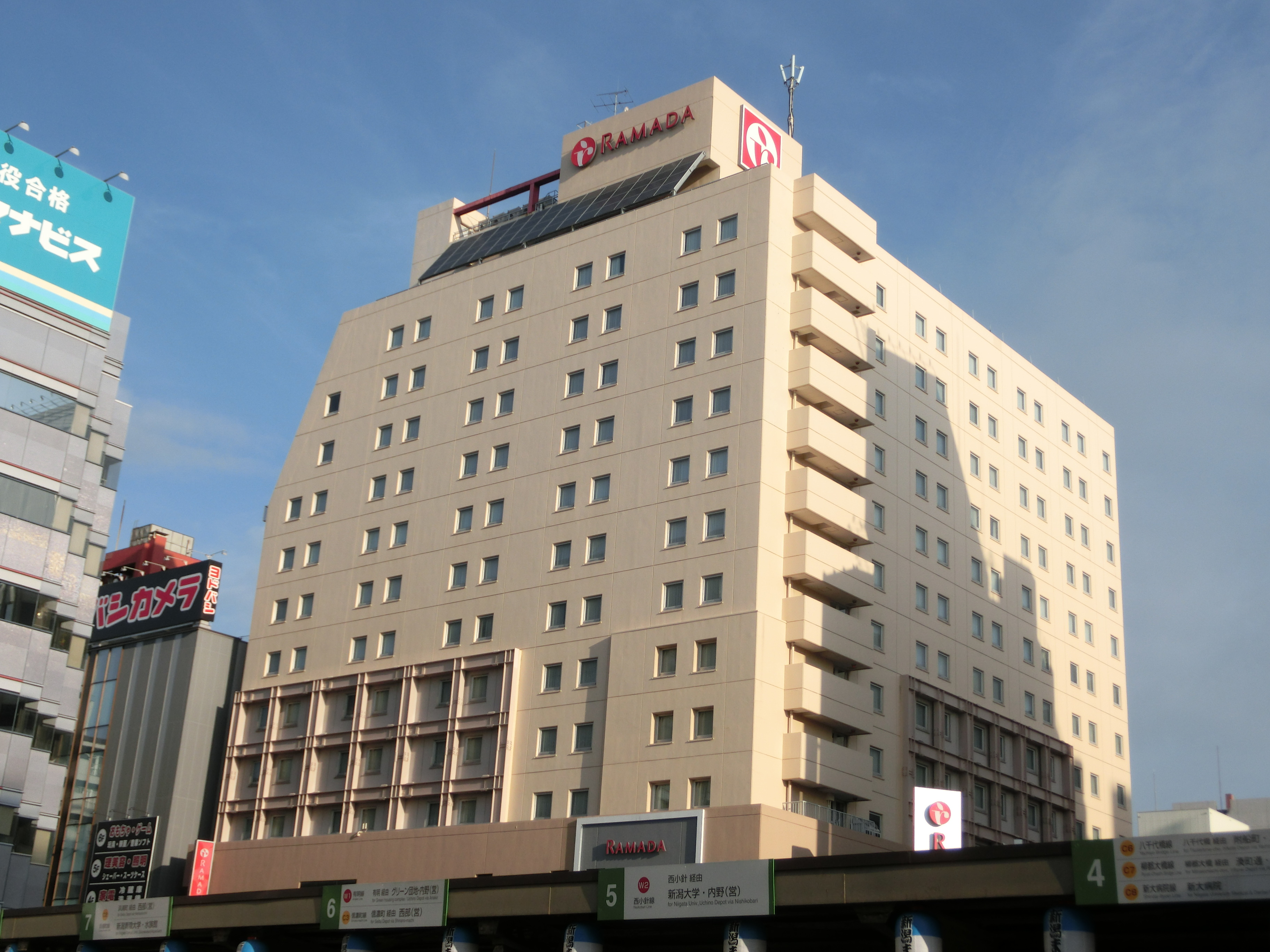 Ramada Hotel Niigata